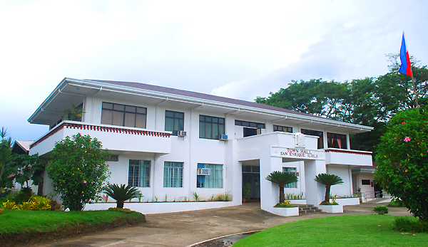 San Enrique Municipal Hall.